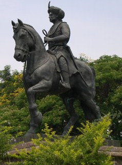 the statue of Madakarinayaka